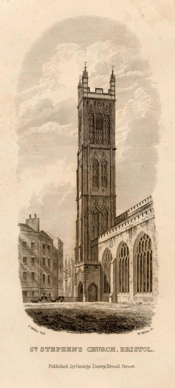 Black and white engraving of St Stephen's Church, Bristol, England, published about 1838. The view is from southeast of the church, showing the nave on the right of the image and the tall, thin tower in the centre. In front of the church are two horse-drawn carriages. Bristol Harbour was on the far side of the church from 1240 until 1892, when it was filled in.